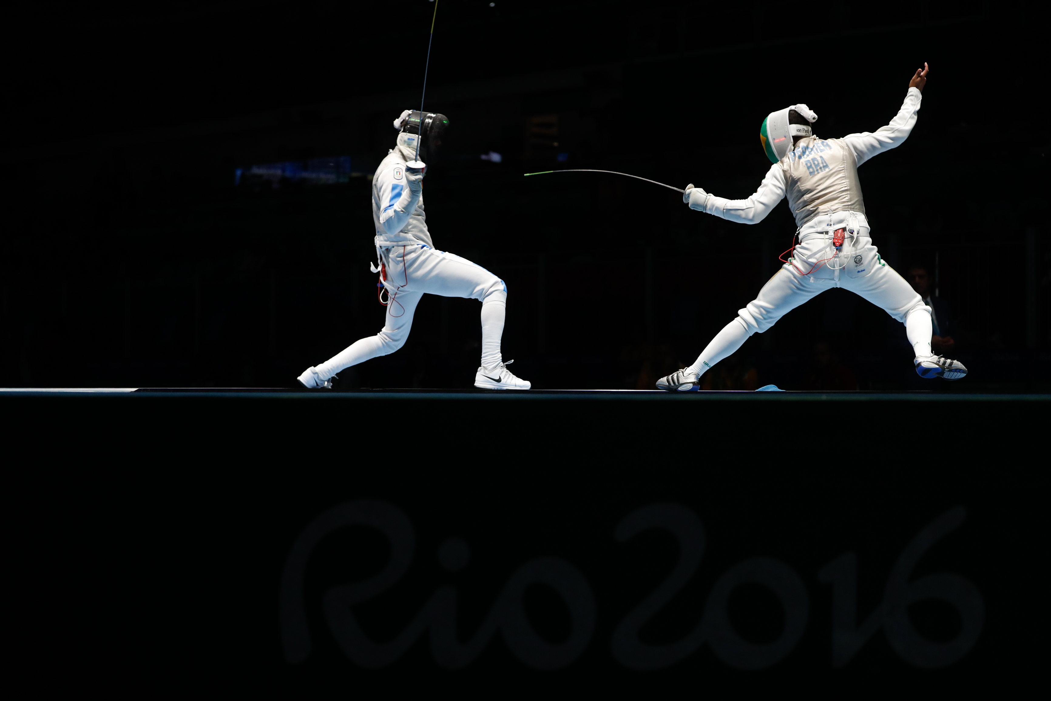 Rio de Janeiro - Equipe brasileira de esgrima perde no florete pata italianos e chineses e termina em 7º lugar nos Jogos Olímpicos Rio 2016. (Fernando Frazão/Agência Brasil)